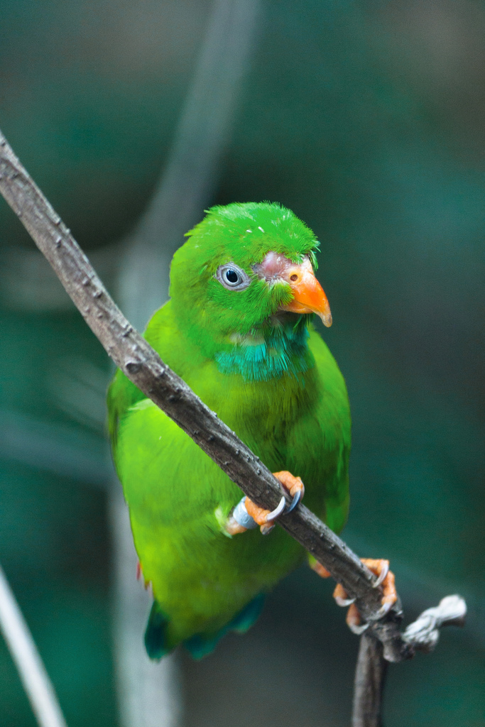 A male Vernal Hanging Parrot at Prague Zoo, Czech Republic.